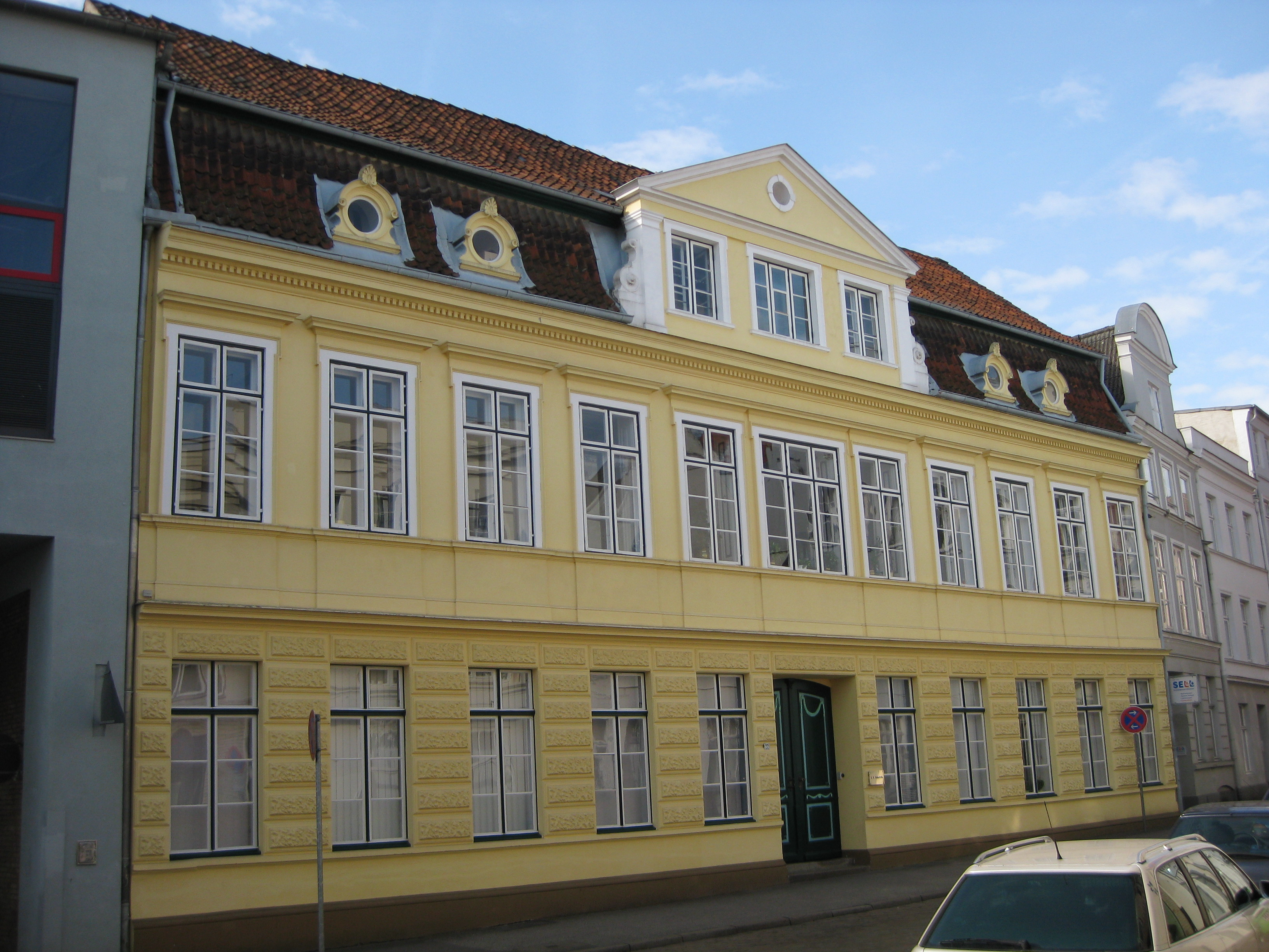 Baroque Palais Geverdeshof from 1779 in the historic Old Town of Lübeck, Aegidienstr. 22